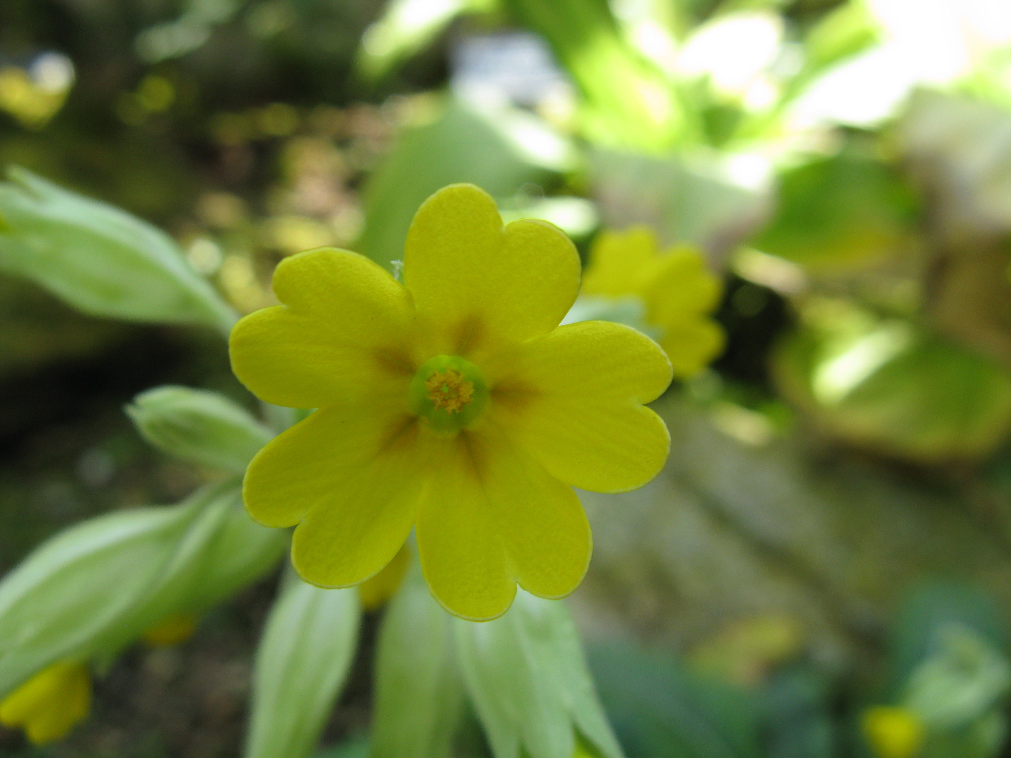 Scientific name Primula veris Place:Osaka Prefectural Flower Garden,Osaka,Japan